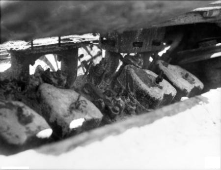 Cape Boram, Wewak area, New Guinea - The left hand side view of the engine in an armoured recovery variant of the medium type 97 Chi Ha tank, which was captured on the beach. Army workshops, the tank regiments and the Intelligence Section of 6 division are interested in this tank, for they have not previously seen this particular type and have no record of its manufacture. The picture was taken at the request of G Armoured Corps, Corps of Electrical and Mechanical Engineers, Land Headquarters.